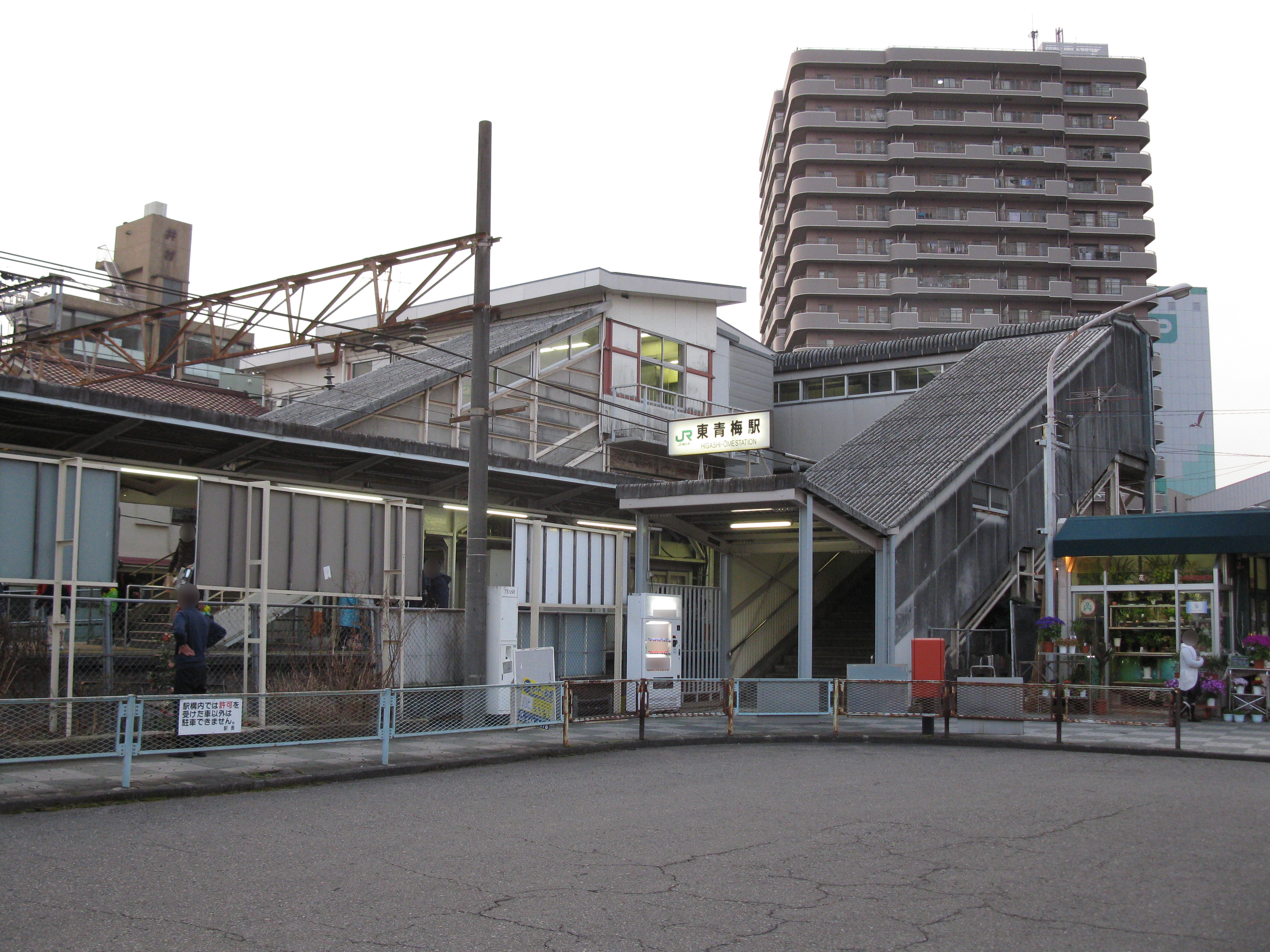 Higashi-Ōme Station north entrance (East Japan Railway Ōme Line)